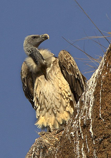 Long-billed Vulture (or Indian Vulture) - Gyps indicus. Ramanagara, Bangalore, India